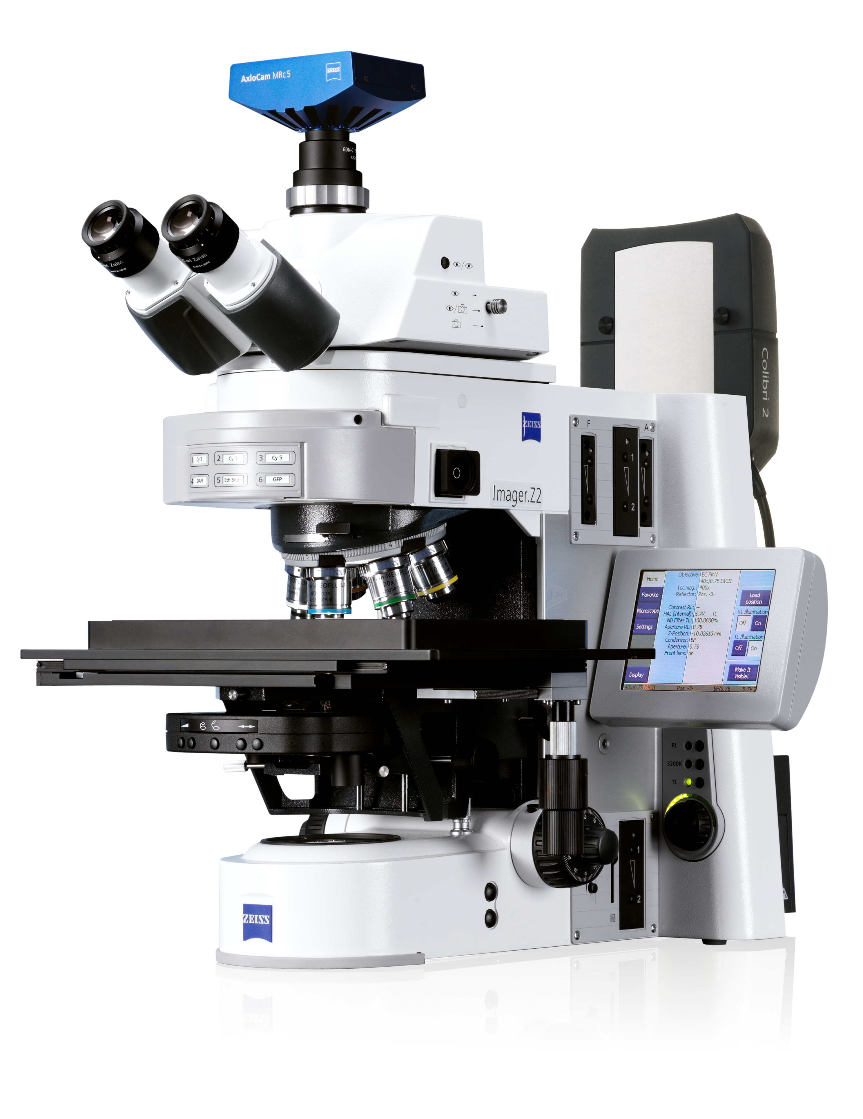 Axio Imager 2 is designed as your platform for an impressive amount of applications in cell biology, neuroscience, molecular genetics and pathology. The motorized reflector turret accommodates either six or ten Push & Click filter modules. Auto-configure all motorized components with Smart Setup of the ZEN imaging software. Acquire fluorescence images with an excellent signal-to-noise ratio. The fluorescence beam path and high efficiency fluorescence filter sets of this research microscope deliver exposure times that are up to 50 percent shorter. Images donated as part of a GLAM collaboration with Carl Zeiss Microscopy - please contact Andy Mabbett for details.